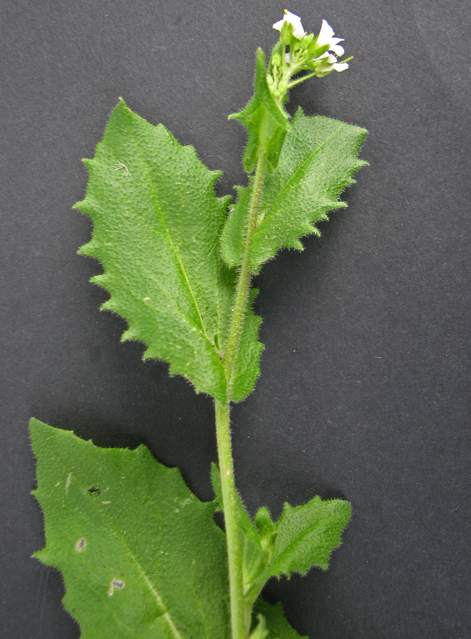 Arabis alpina Schöckl, Styria, Austria